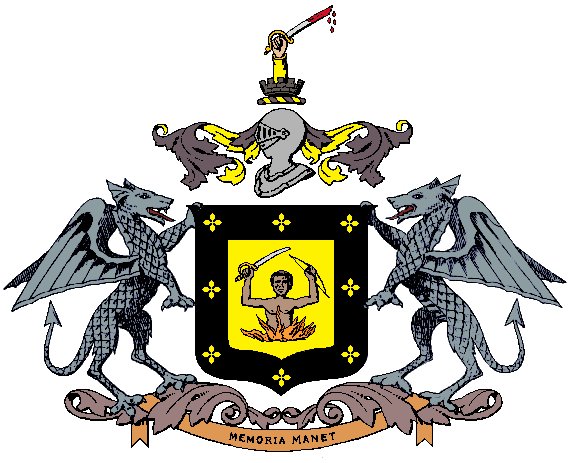 Chhota Udaipur State Coat of ArmsRaja of.... Arms: Or, a demi man affronté in flames holding a sword in dexter and bow in sinister hand, all proper, within a bordure Sable, charged with eight quatrefoils of the field. Crest: On a helemt to the dexter lambrequined Or and Sable, rising out of a mural crown Sable, a dexter arm vested Or, holding in bend sinister a sword broken and imbued proper. Supporters: Dragons. Motto: memoria manet (The memory Remains)